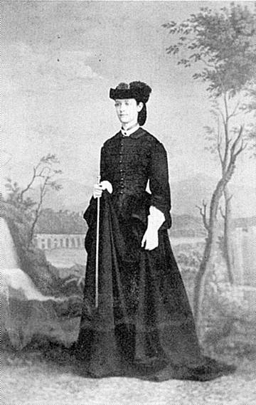 Royal Princess Maria Annunziata of Bourbon-Sicilia, 1843-1871, second wife of Archduke Karl Ludwig of Austria, mother of Archduke Franz Ferdinand of Austria